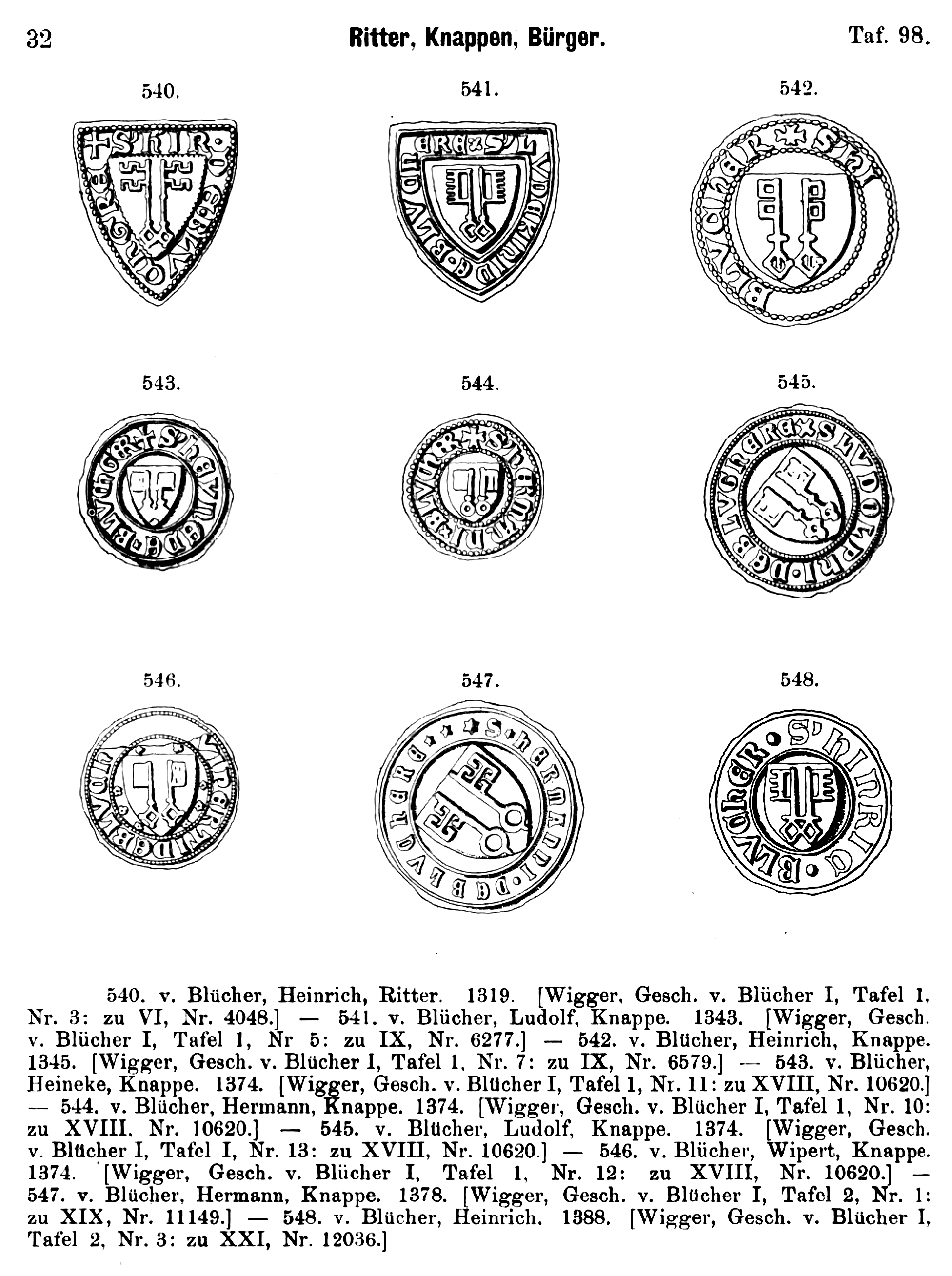 Table 98 of collected seals from the medieval Duchy of Mecklenburg.